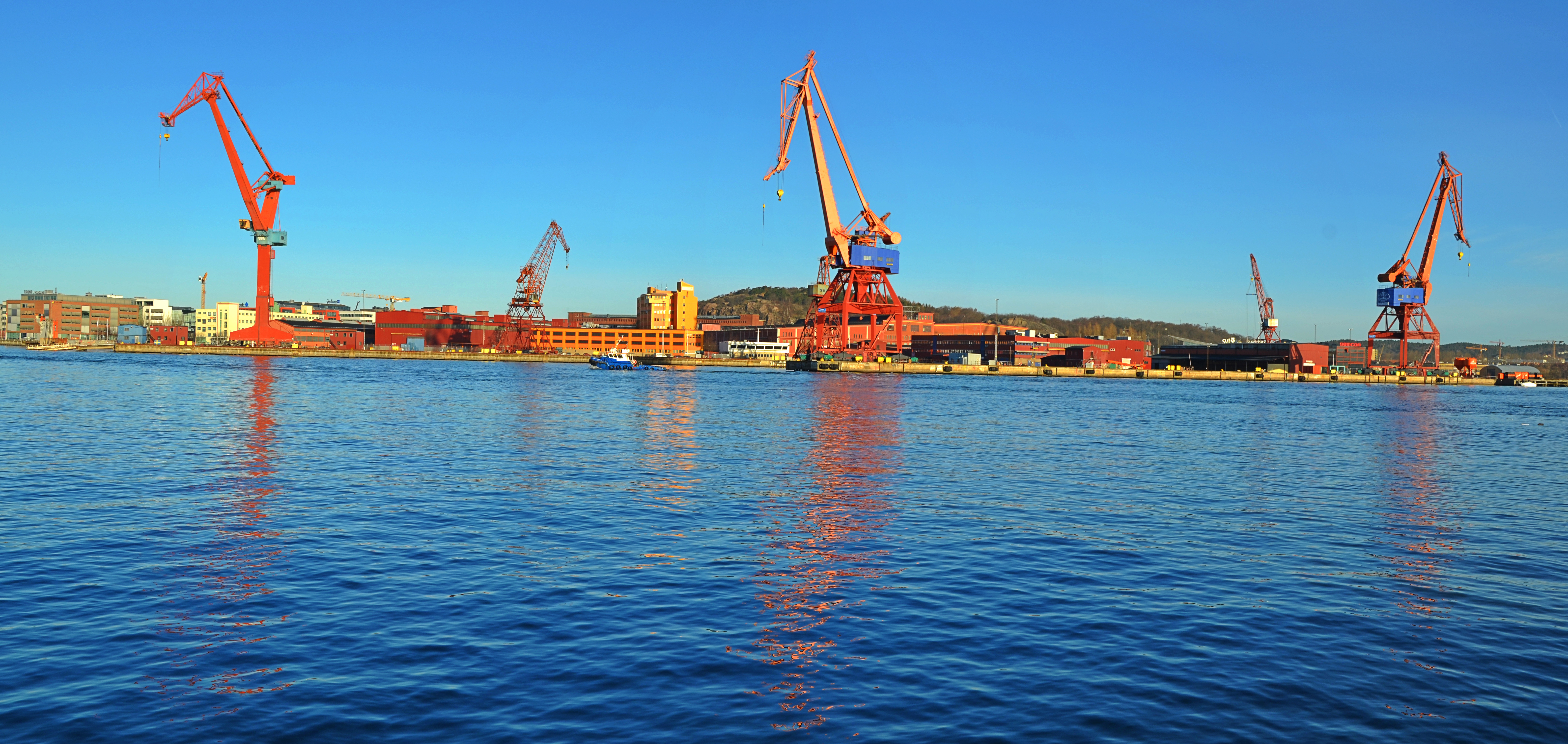 Götaverken panoramic view from Stenpiren.